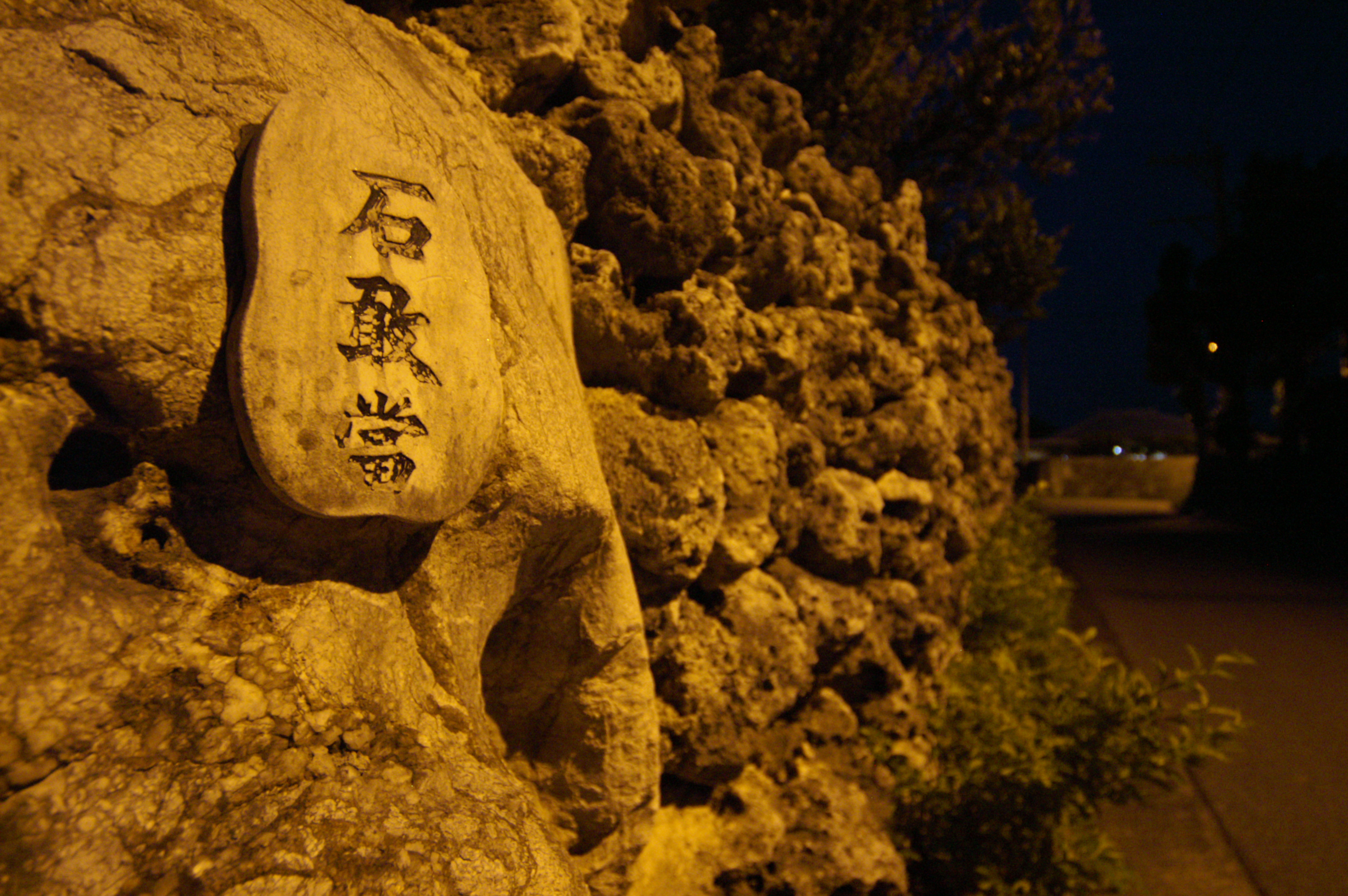 %u77F3%u6562%u7576(Ishigantoh) is a sort of talisman. Generally it places at the corner of house or the end of the alley to keep Okinawan evil spirit MAJIMUN away. at Kohama-jima island, Okinawa, JAPAN